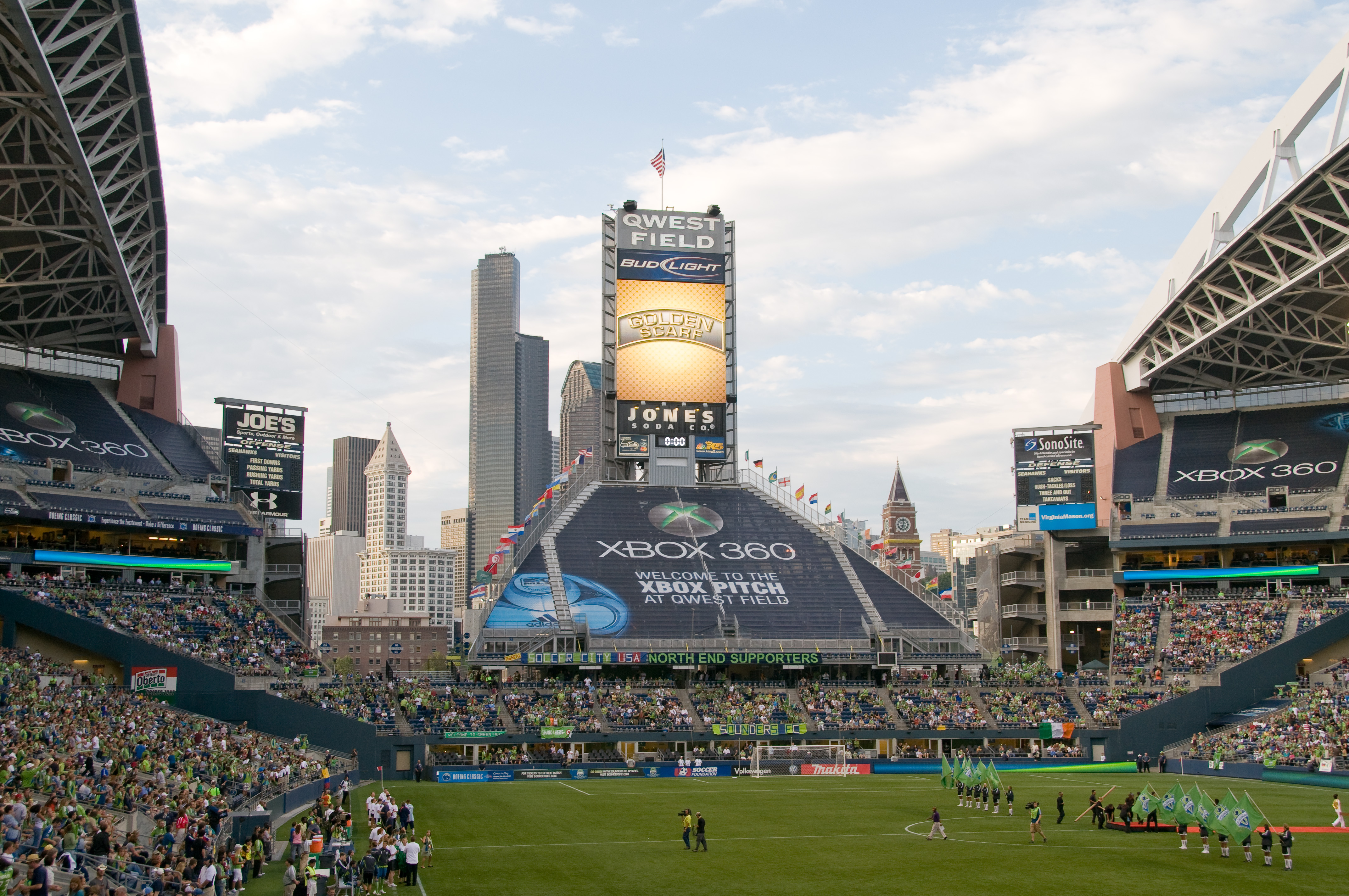 Qwest Field with Seattle in the background